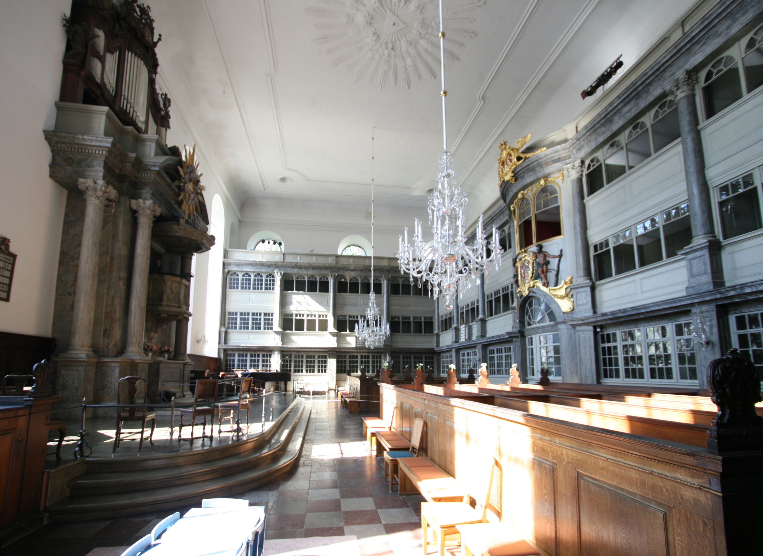 Christians Kirke, Copenhagen, Denmark. Interior from southeast